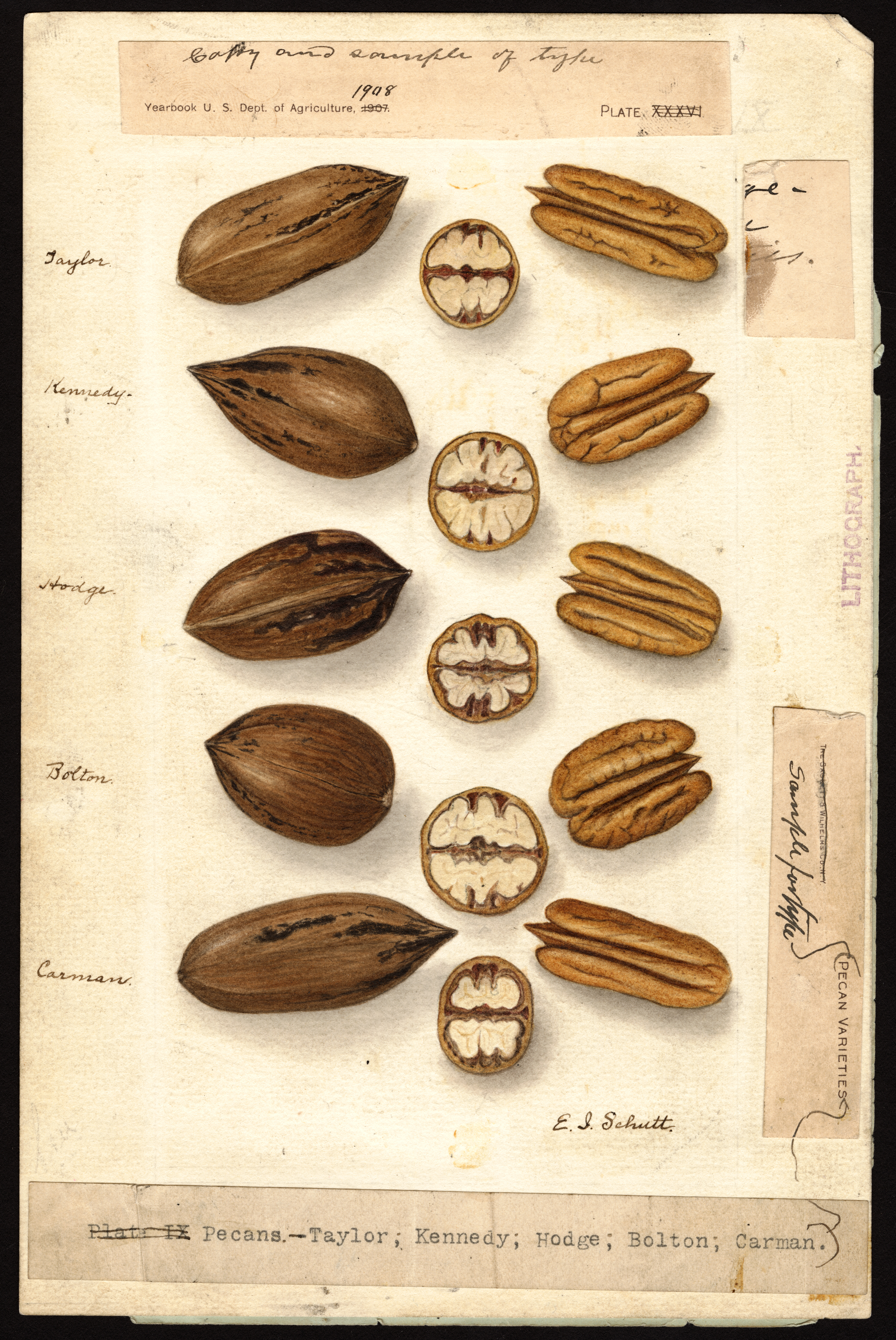 Image of pecans (scientific name: Carya illinoinensis). Source: U.S. Department of Agriculture Pomological Watercolor Collection. Rare and Special Collections, National Agricultural Library, Beltsville, MD 20705.